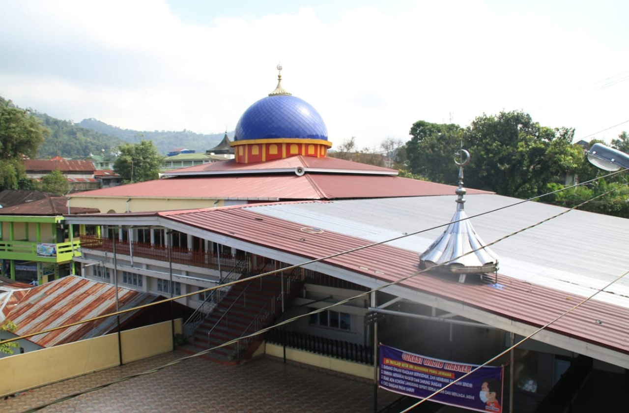 Surau Jembatan Besi is a mosque founded by Sheikh Abdullah Ahmad in 1895. The term for the design of the Surau Jembatan Besi is inspired by the wooden roofed bridge near the Surau. Long story short, Formerly Buya Hamka's father along with prominent scholars had given Friday sermons there, many worshipers came, not only from Padang Panjang but also from Batipuh X Koto. Until now Surau Jembatan Besi has become a name for the Zu'ama Mosque where the mosque is still a place of recitation and praying five times a day for the local community and even the children there also attend the TPA / TPSA.